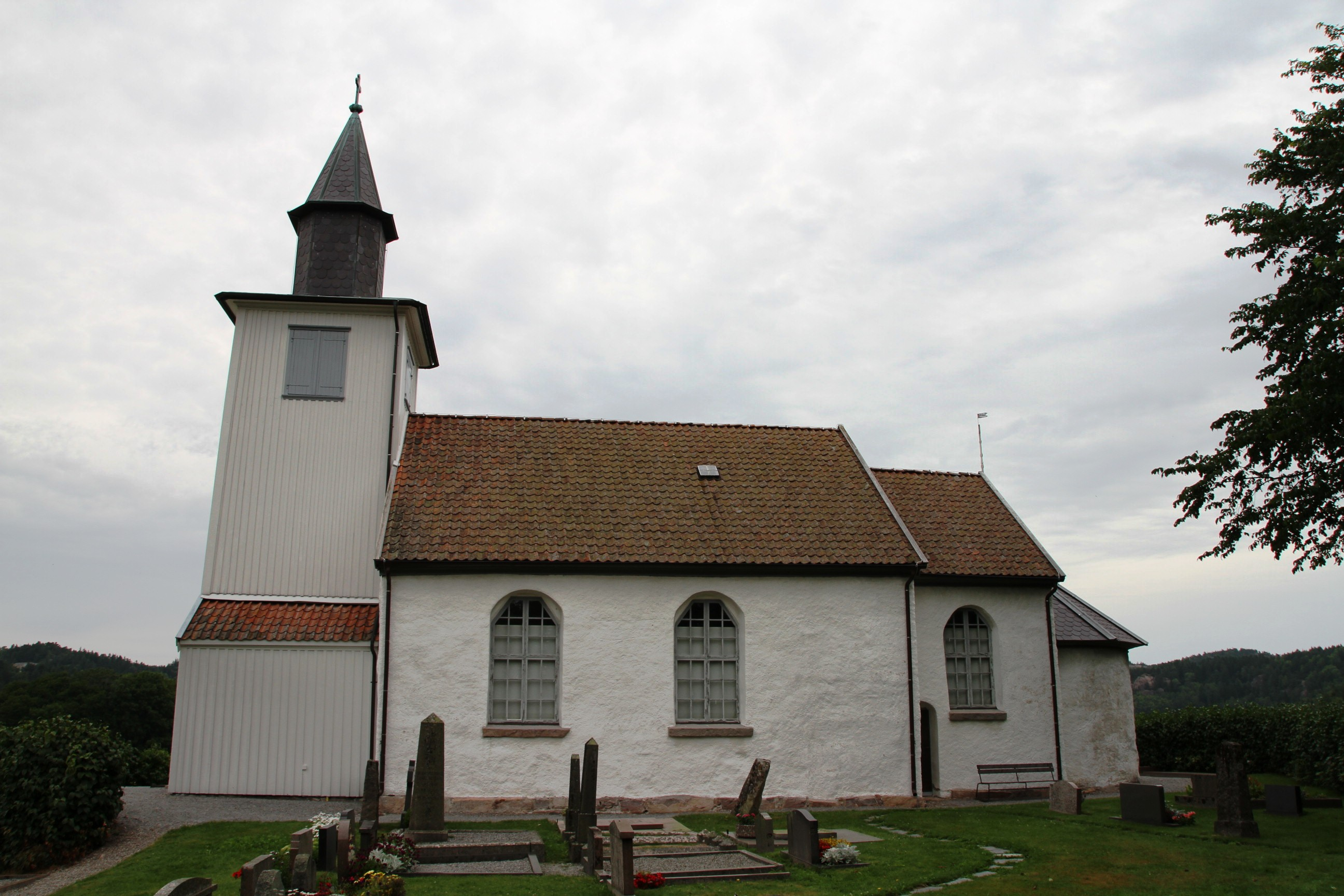 Bärfendals kyrka finns langt vest i Munkedals kommun - Bohuslen